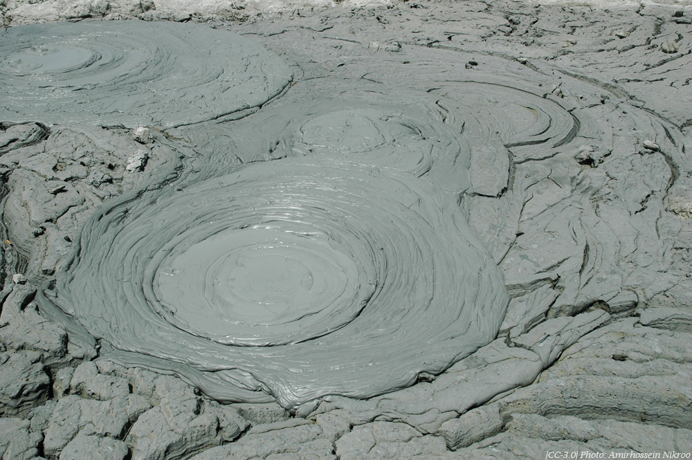 Chabahar Mud Volcano, Sistan and Baluchestan, Iran